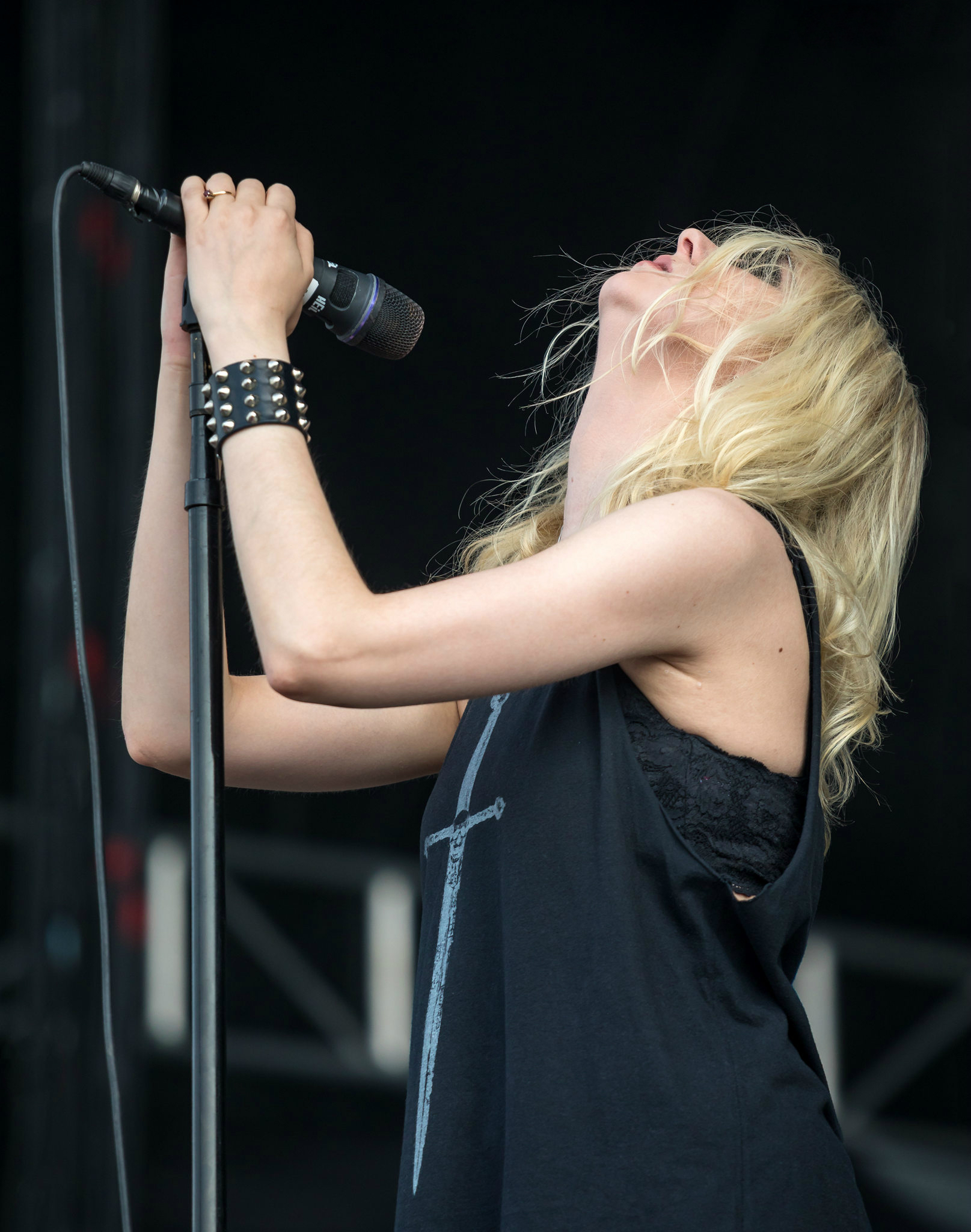 The Pretty Reckless performing at the River City Rockfest at the AT&T Center in San Antonio, Texas on May 27, 2017.